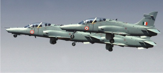 The first flypast of Hawk aircrafts after induction into the Indian Air Force at Air Force Station, Bidar